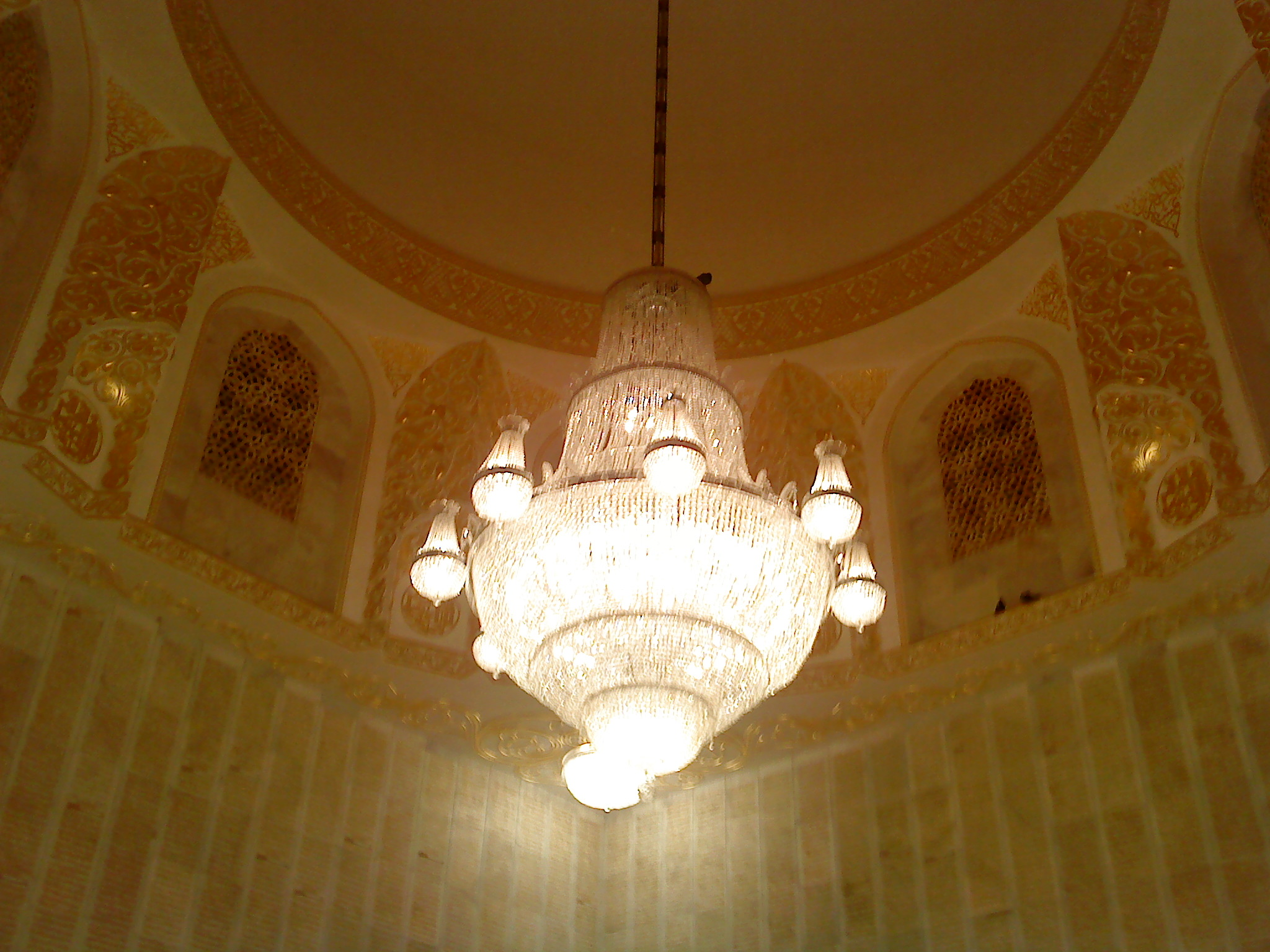 Crystal chandelier and inscription of the entire Quran